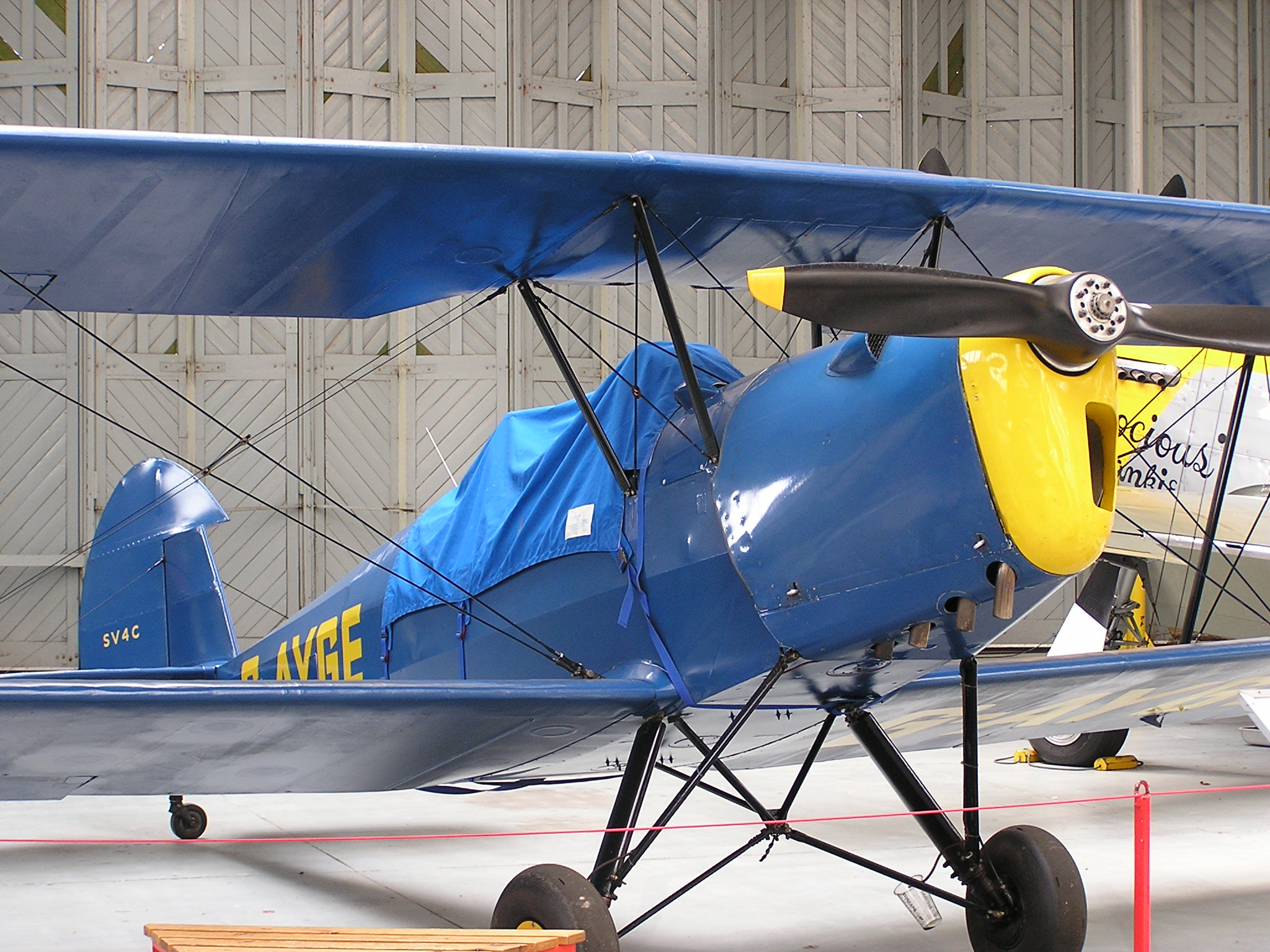 Stampe SV4C G-AYGE undergoing maintenance at Duxford, 22 August 2012